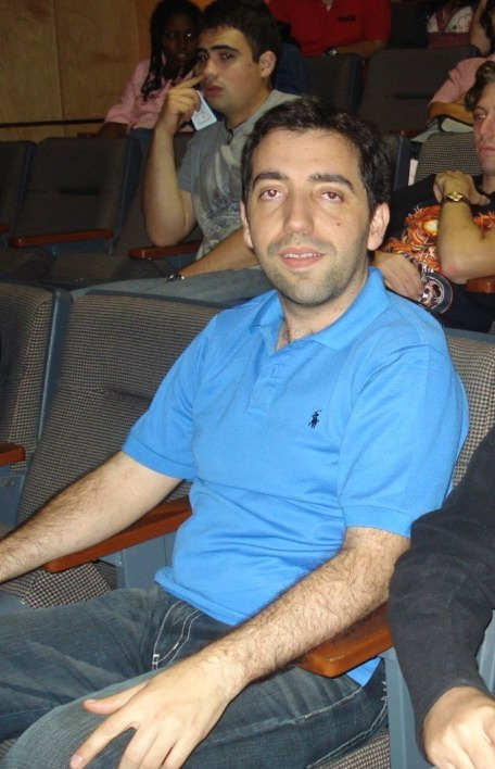 GM Jose Gonzalez García Mexico, Merida 2008.